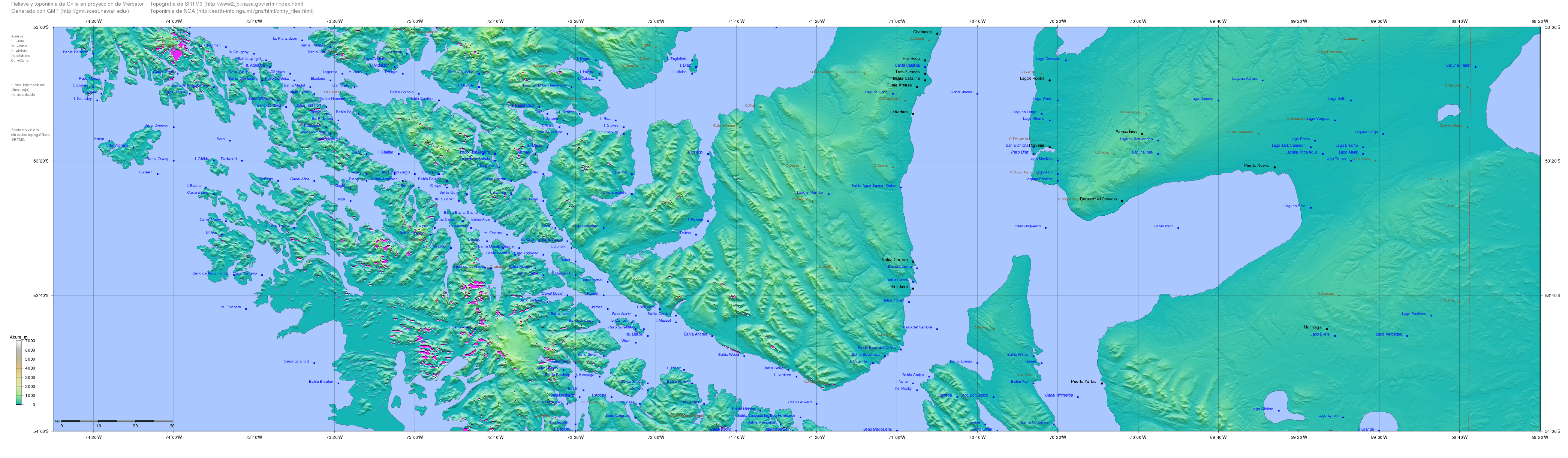 Map of Chile generated with GMT ( topography from SRTM ftp://e0srp01u.ecs.nasa.gov/srtm/version2/SRTM3/ and toponymy from